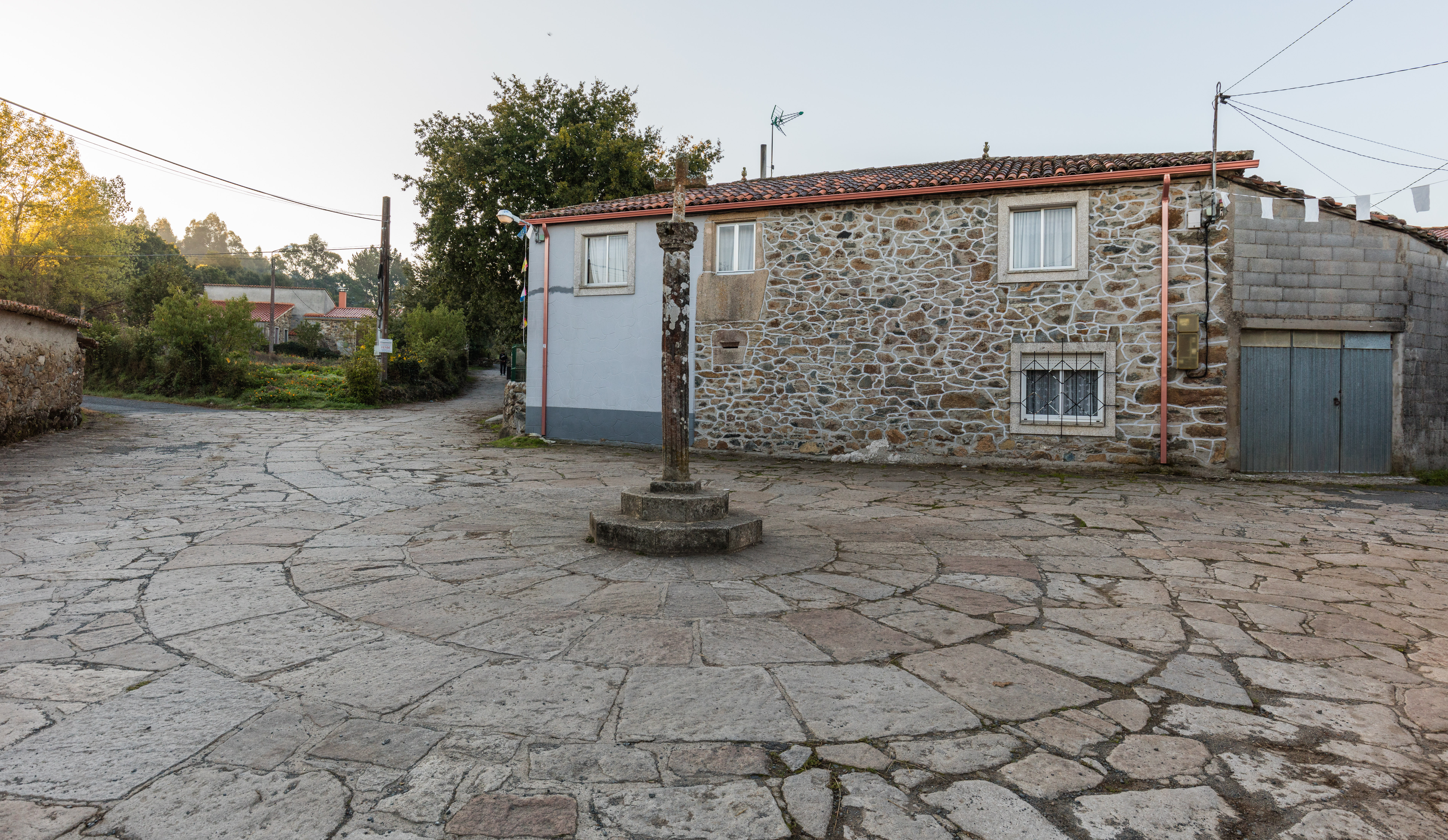 Calvary in St James's Way, Lugo, Spain